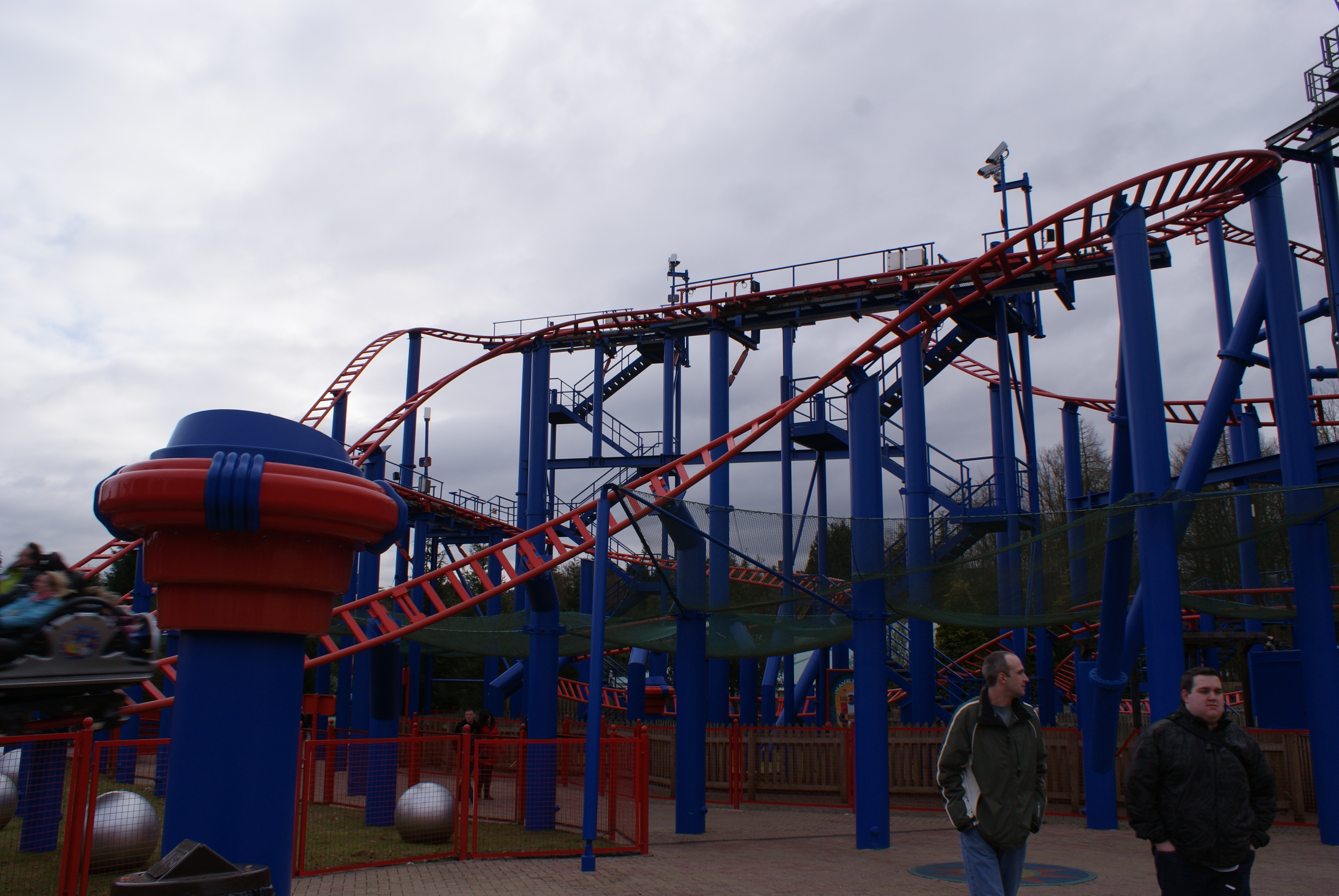 The rethemed Spinball Wizzer